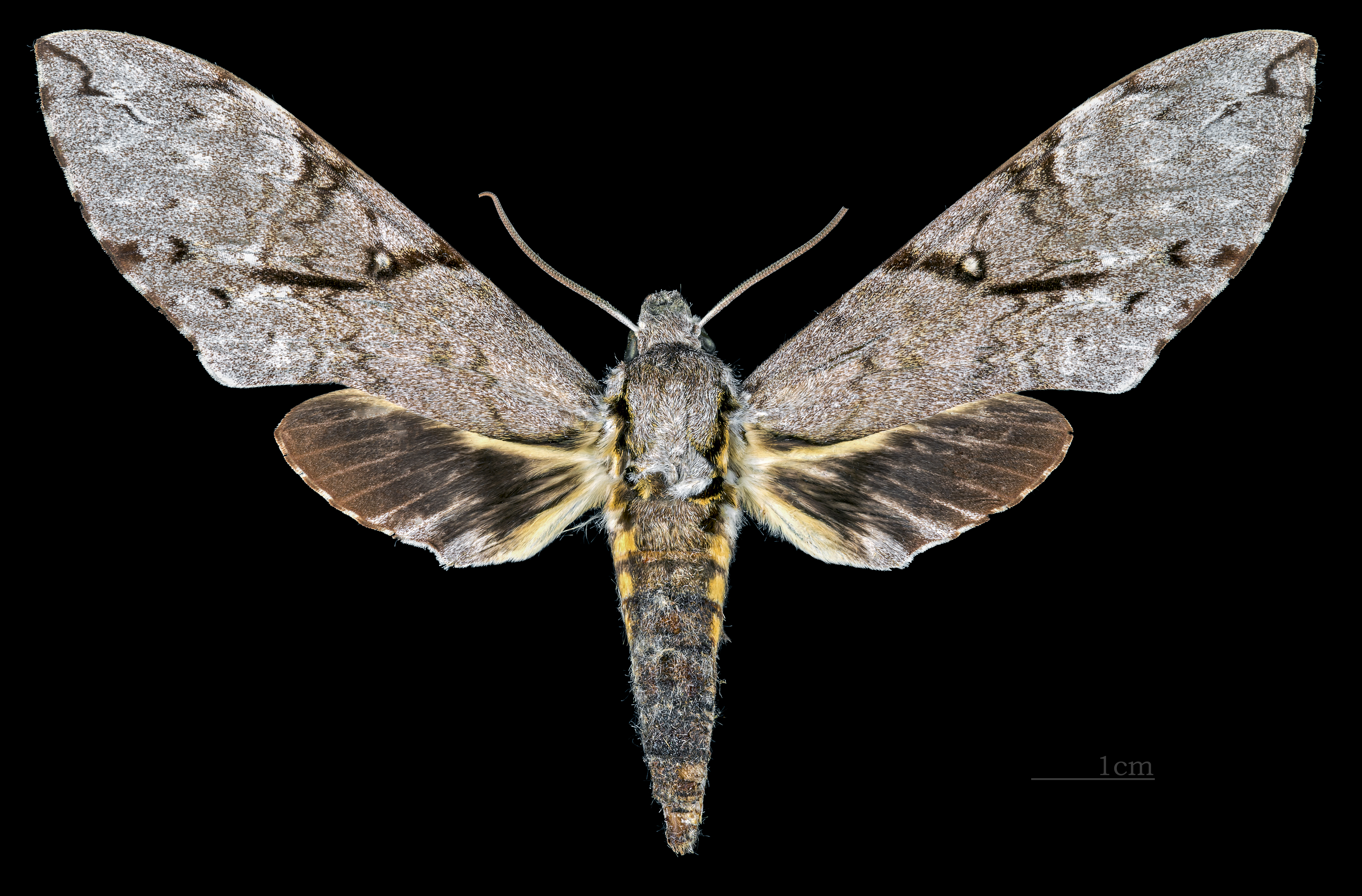 Manduca prestoni - Dorsal side